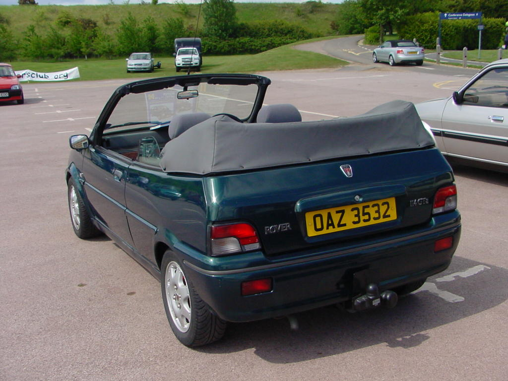 Rear of a february 1996 green Rover 100 Cabriolet 1.4. Metro 30th Anniversary at Heritage Motor Centre, Gaydon, UK